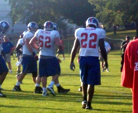 Mitch Petrus at New York Giants training camp in 2010.